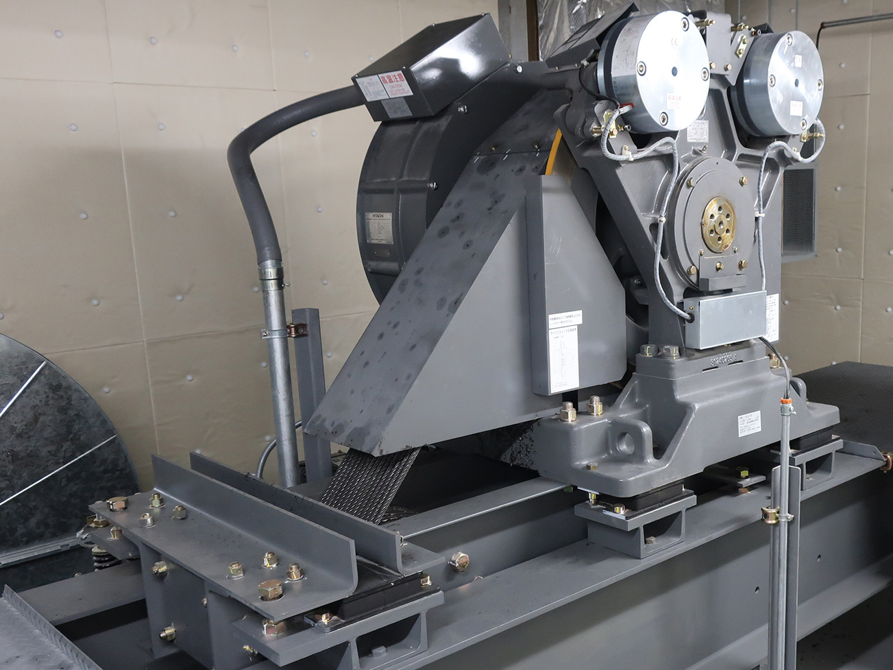 36 kW elevator motor in the electric room in a high-rise building.